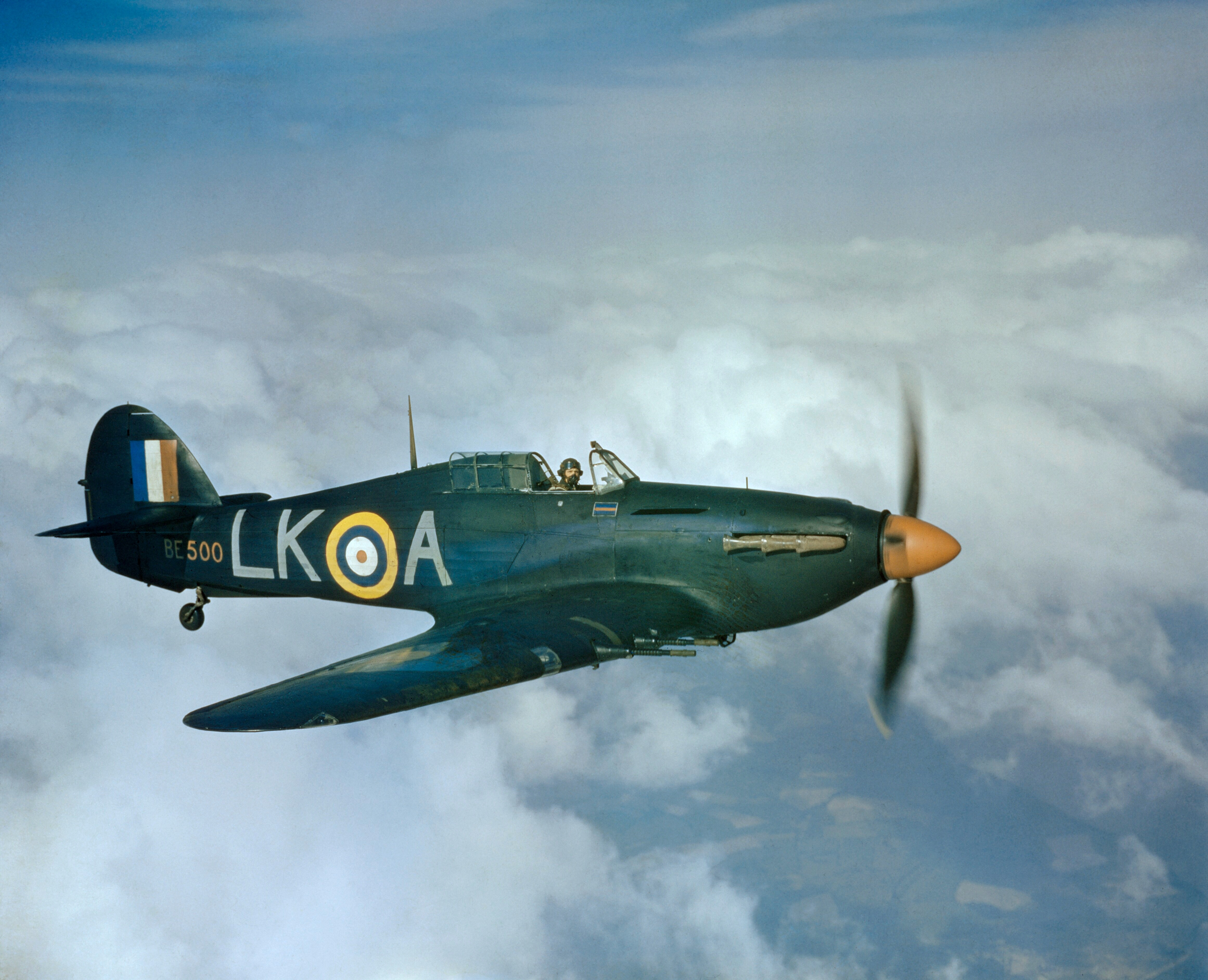 A Royal Air Force Hawker Hurricane Mark IIC (s/n BE500, 'LK-A', "United Provinces Cawnpore") being flown by Squadron Leader Dennis Smallwood, the Commanding Officer of No. 87 Squadron RAF based at RAF Charmy Down, Somerset (UK). No. 87 Squadron was one of the first RAF night fighter squadrons. Sqn Ldr Smallwood led the squadron in 1941-42, when most intercepts were made entirely without on-board radar. The aircraft is painted in an overall black scheme known in the RAF as "Special Night". BE500 subsequently served with No. 533 Squadron RAF and finally in the Far East.